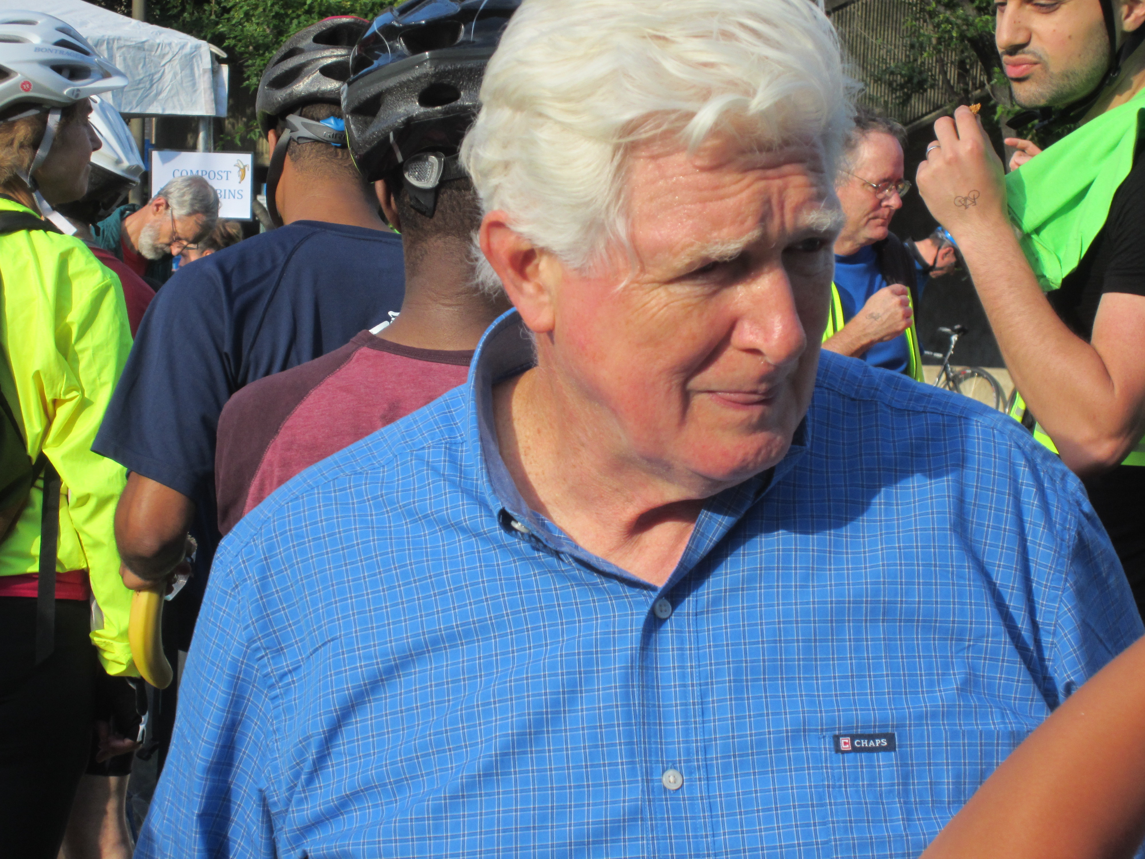 Congressman Jim Moran, photographed on May 18, 2012 at the Rosslyn pit stop during Bike to Work Day DC 2012.